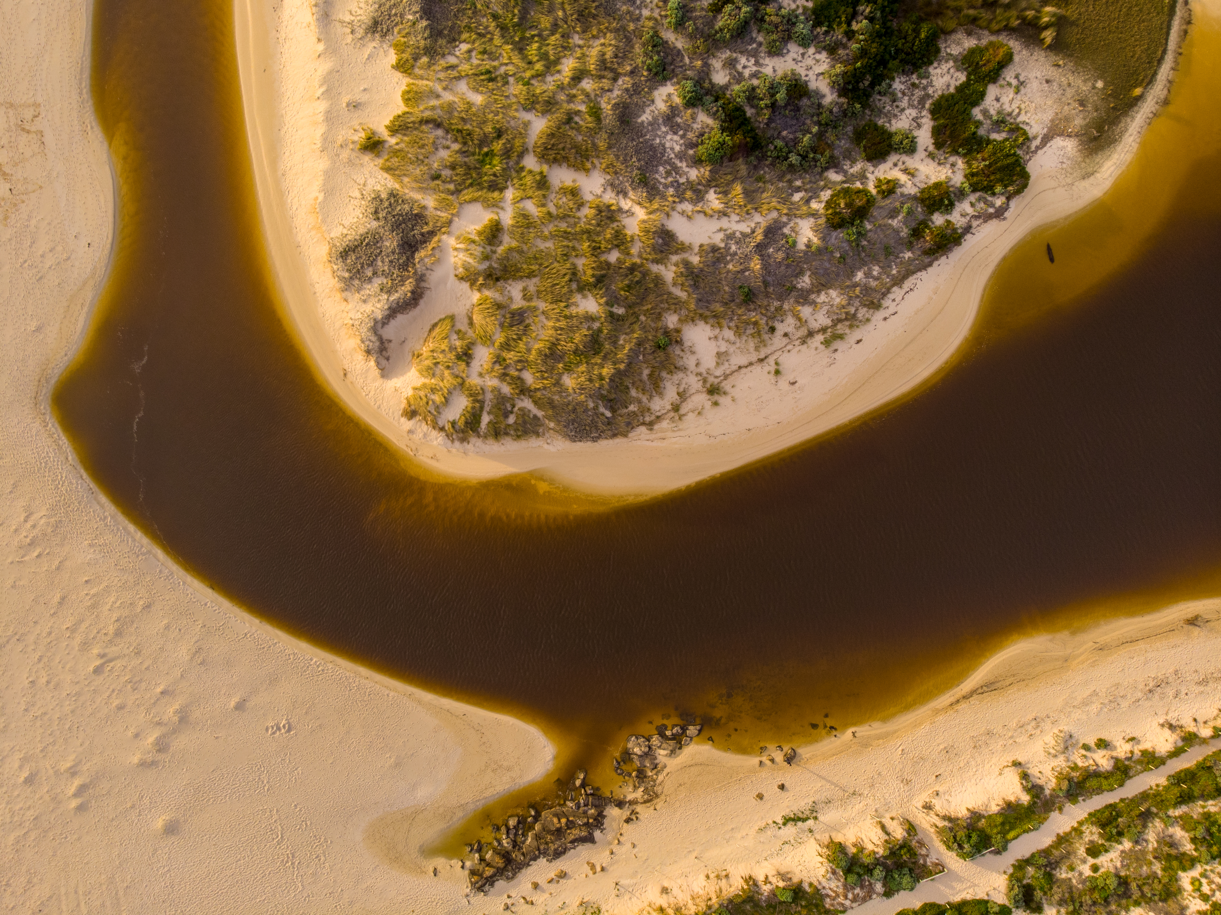 River mouth in spring